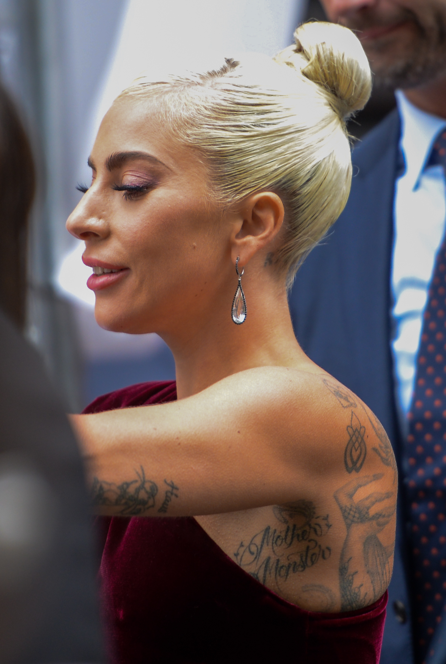 Lady Gaga at the 2018 Toronto International Film Festival